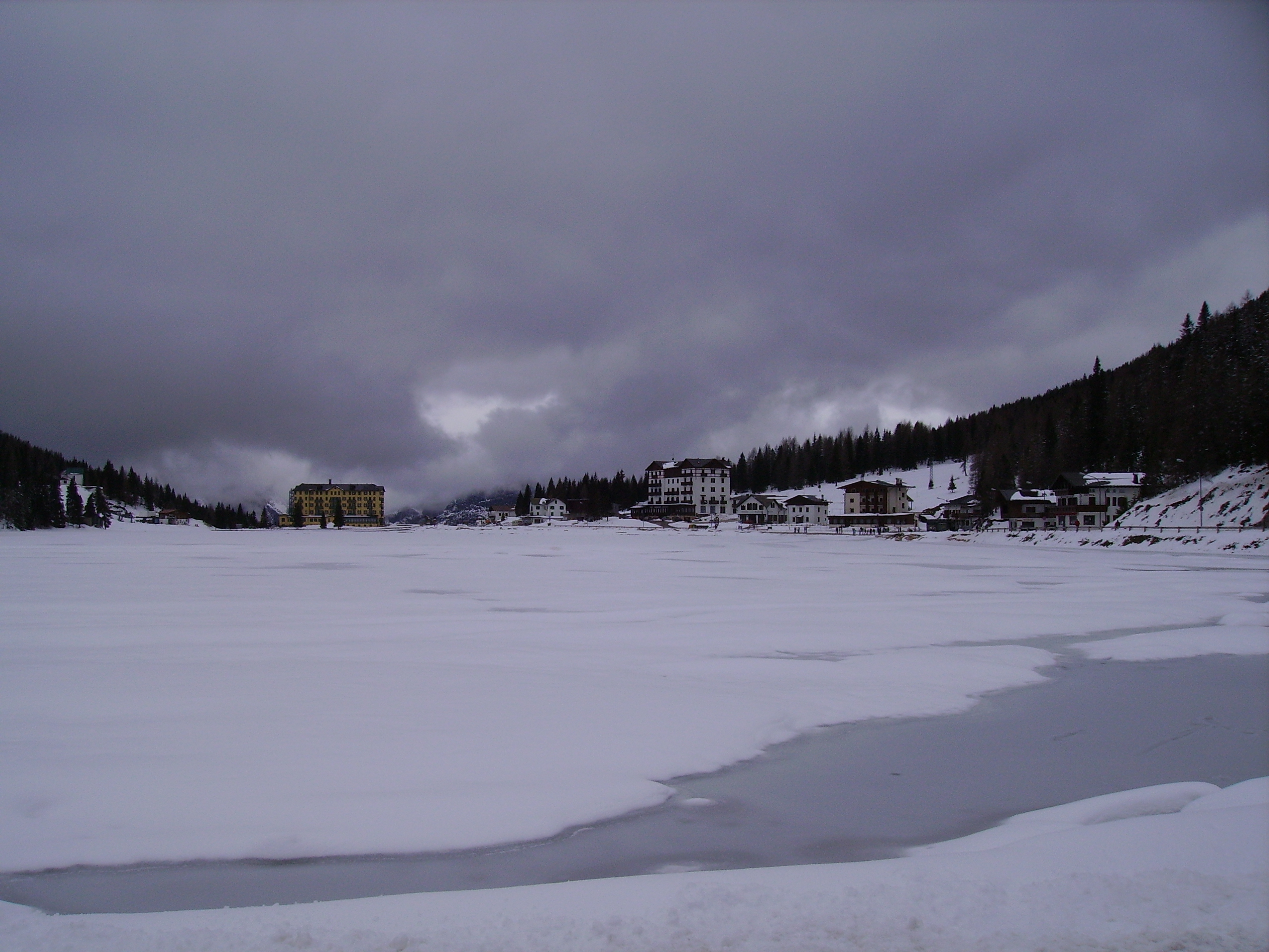 Frozen Lake Misurina - Lakes of the Dolomites.